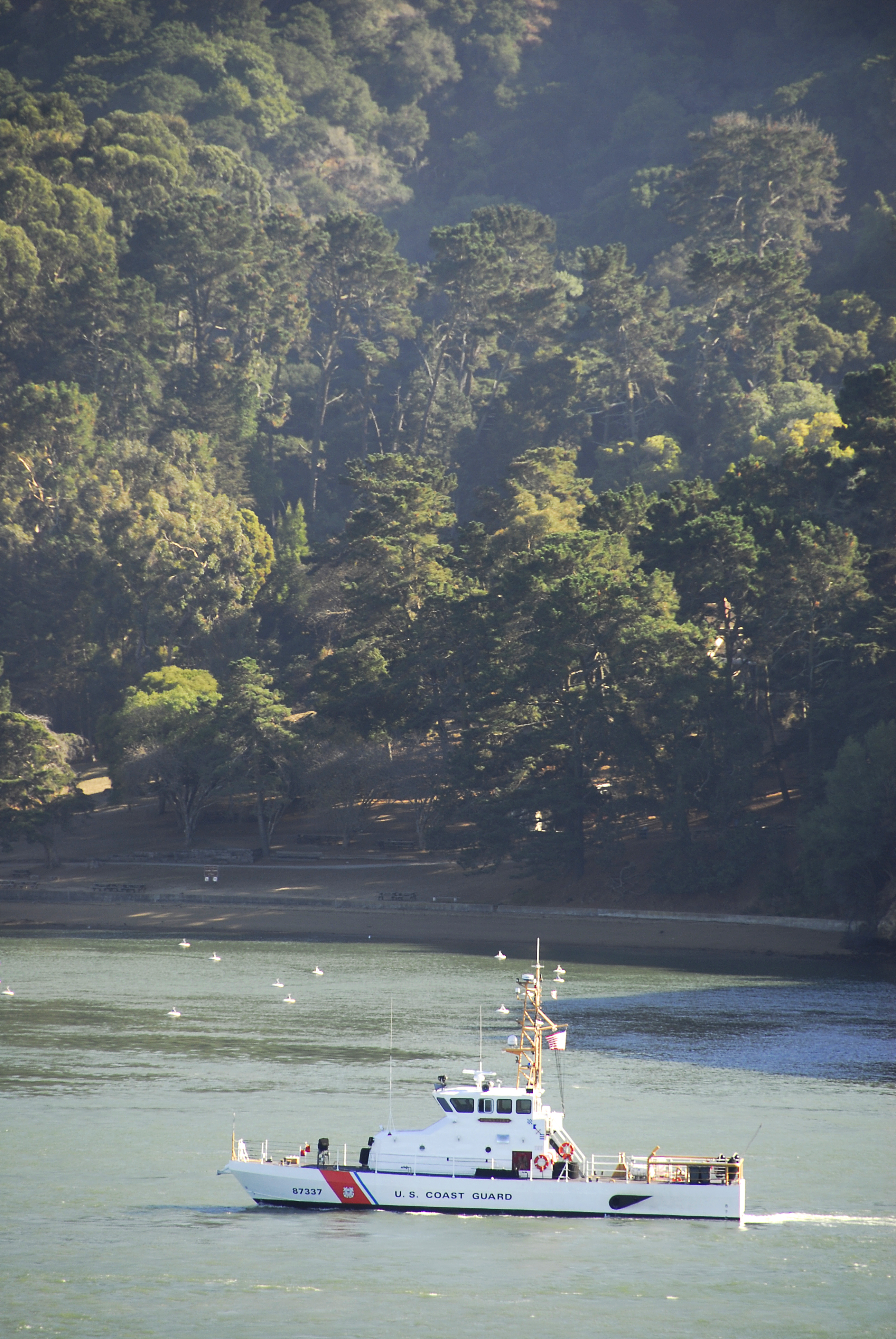 USCGC Sockeye during brush fires on Angel Island, California Original caption: “SAN FRANCISCO - The CGC Sockeye acts as the On Scene Coordinator here Oct. 13, 2008, after fires broke out on Angel Island Oct. 12, 2008. Working with the Tiburon Fire Department, Coast Guard Station Golden Gate assisted by providing transportation of firefighters and assets to and from the island. Station San Francisco also enforced a 100-yard security zone around the island. (Coast Guard photo by Petty Officer 3rd Class Erik Swanson)” Virin = 081013-G-#####-003